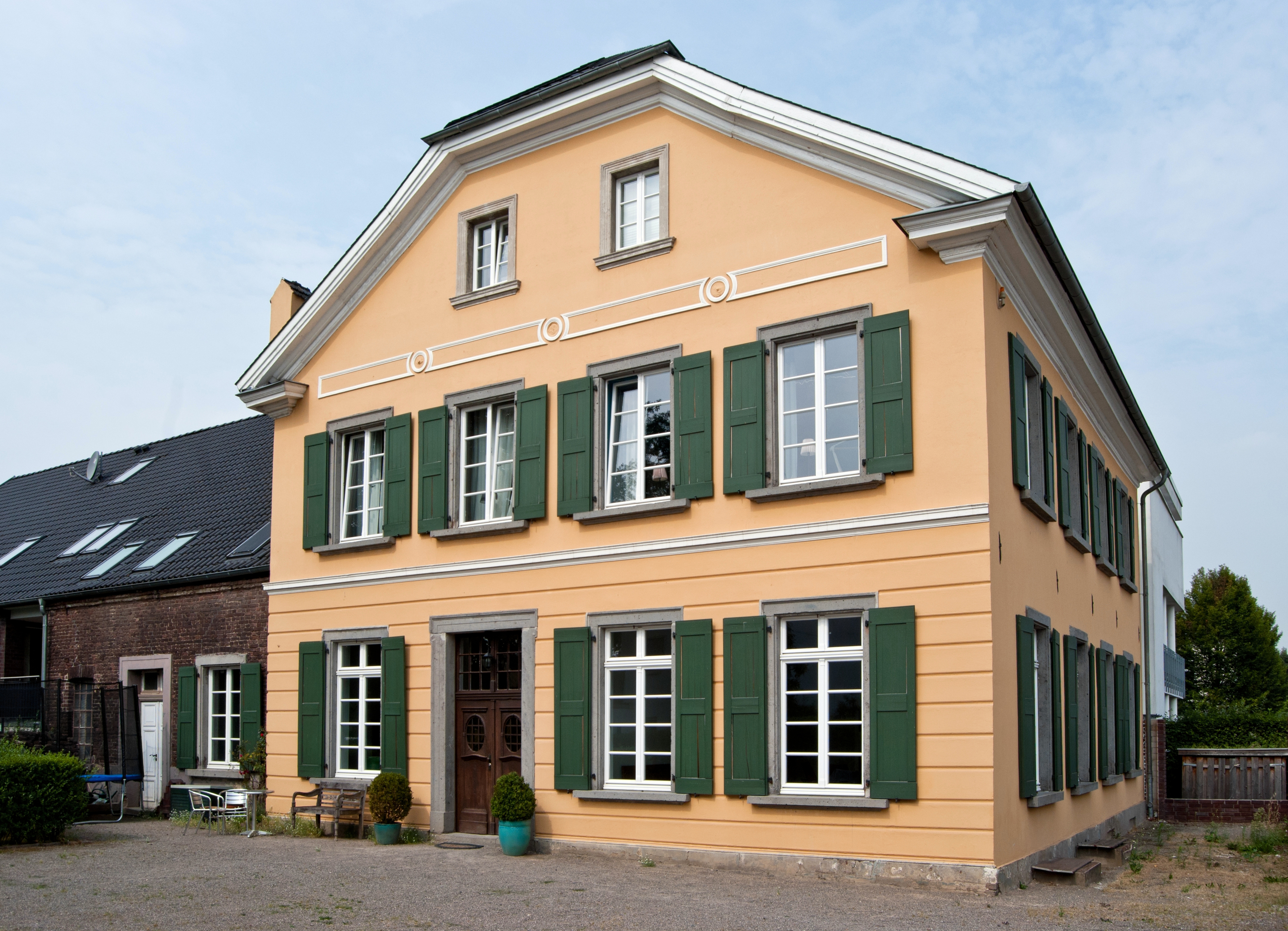 This photograph was taken with a Nikon D3000 This image shows a heritage building in Germany, located in the North Rhine-Westphalian city Duisburg. Verputztes Wohngebaeude, ein 1864 in spaetklassizischten Formen erbautes T-Haus, des Ten Needens Hof in Rumeln - Denkmalliste Duisburg, Nr. 366 - Koordinaten: 51.24'8.82"N, 6.39'56.64"E, Blickrichtung 28